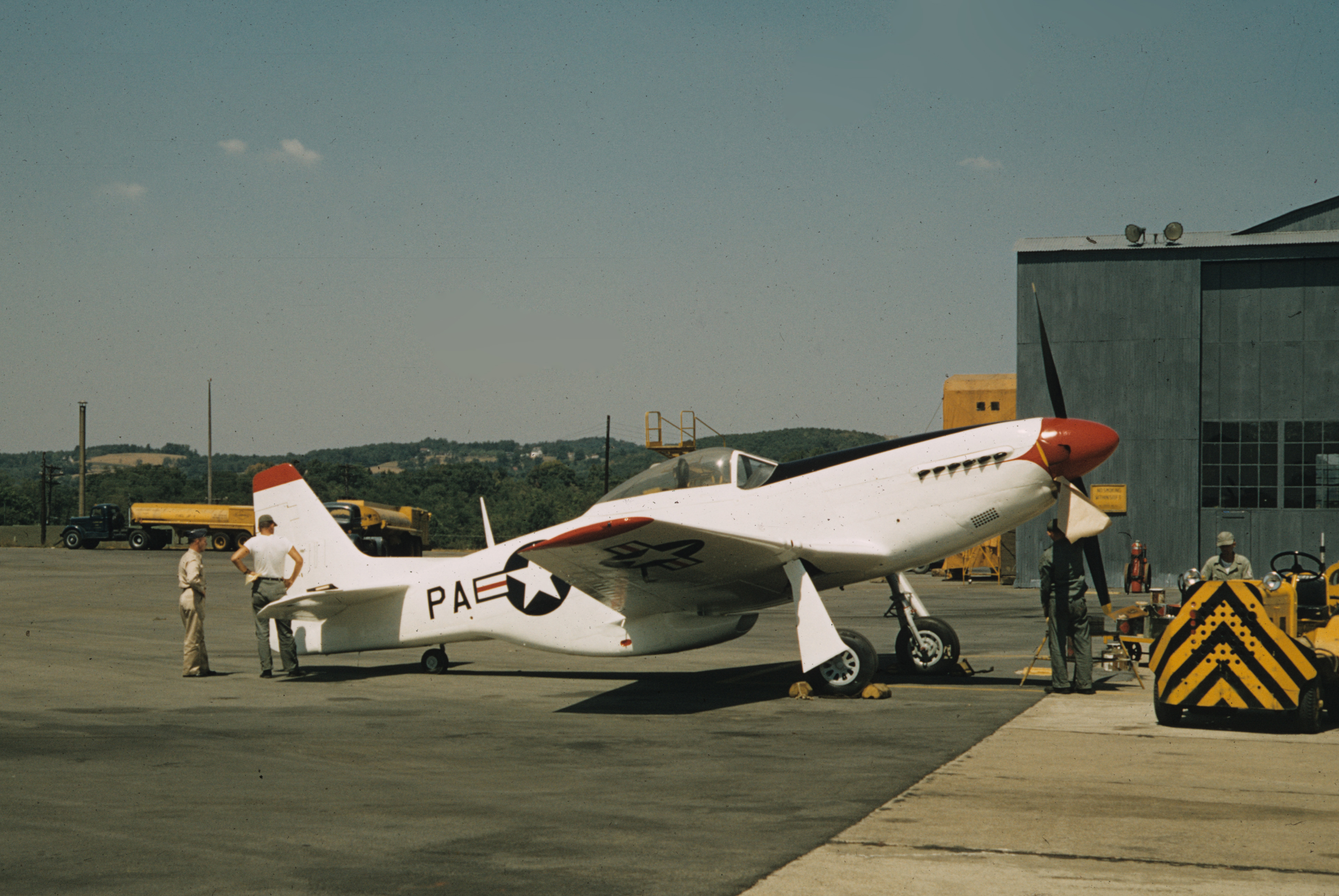 A U.S. Air Force North American F-51 Mustang at Spaatz Field at the Reading Airport, Pennsylvania, in the a summer of 1957, then home of the 140th Aeromedical Transport Squadron of the Pennsylvania Air National Guard. This is the point in time when the Fighter Squadron was disbanded and the new "cargo" mission was employed to the unit members who begrudgingly gave up their F-51 Mustangs. This Mustang was preserved and used as a static display.